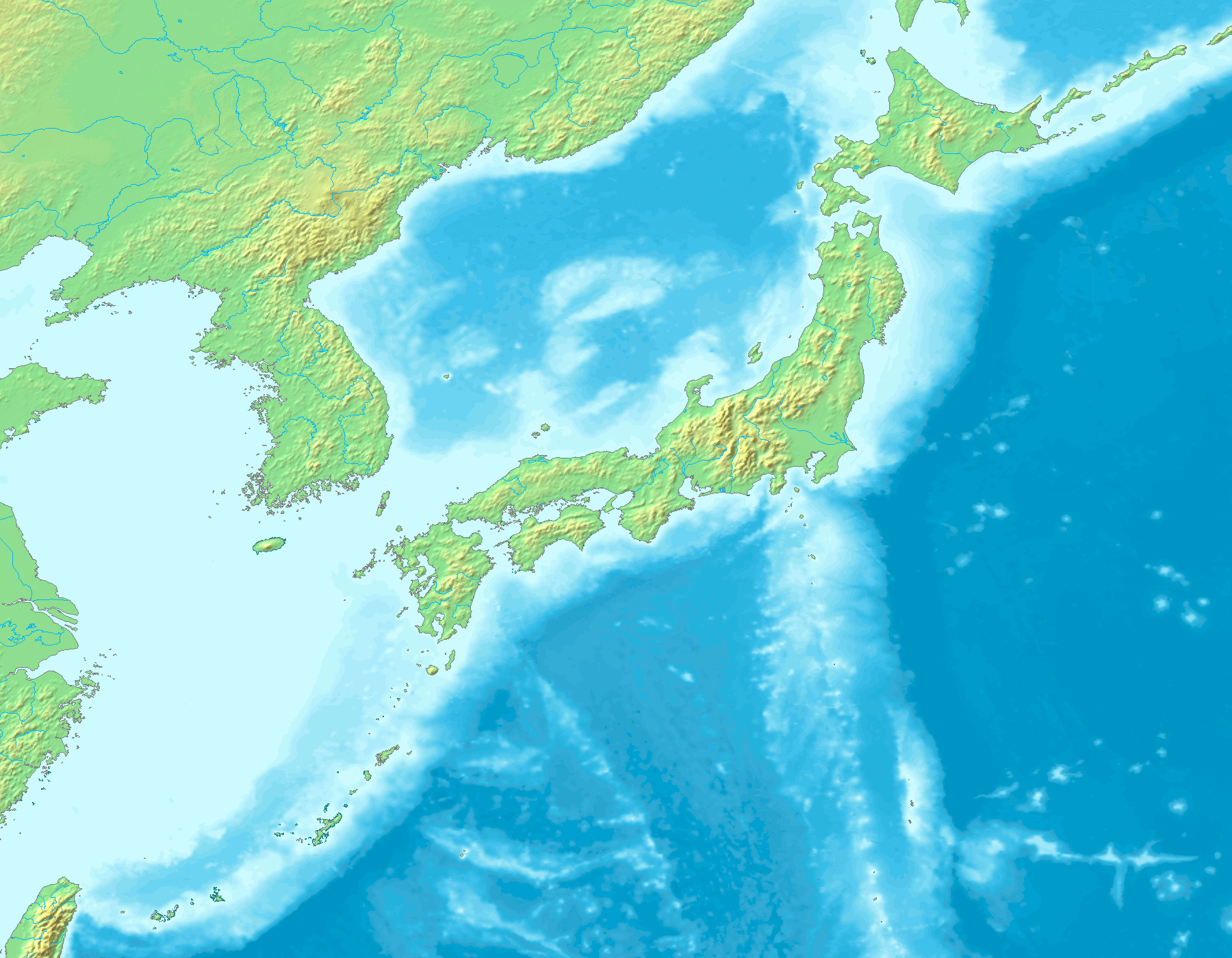 Topographic map of Japan, composed from Image:Topographic30deg N30E120.png and Image:Topographic30deg N0E120.png, both GFDL images. The maps are originally from DEMIS Mapserver, which are public domain.